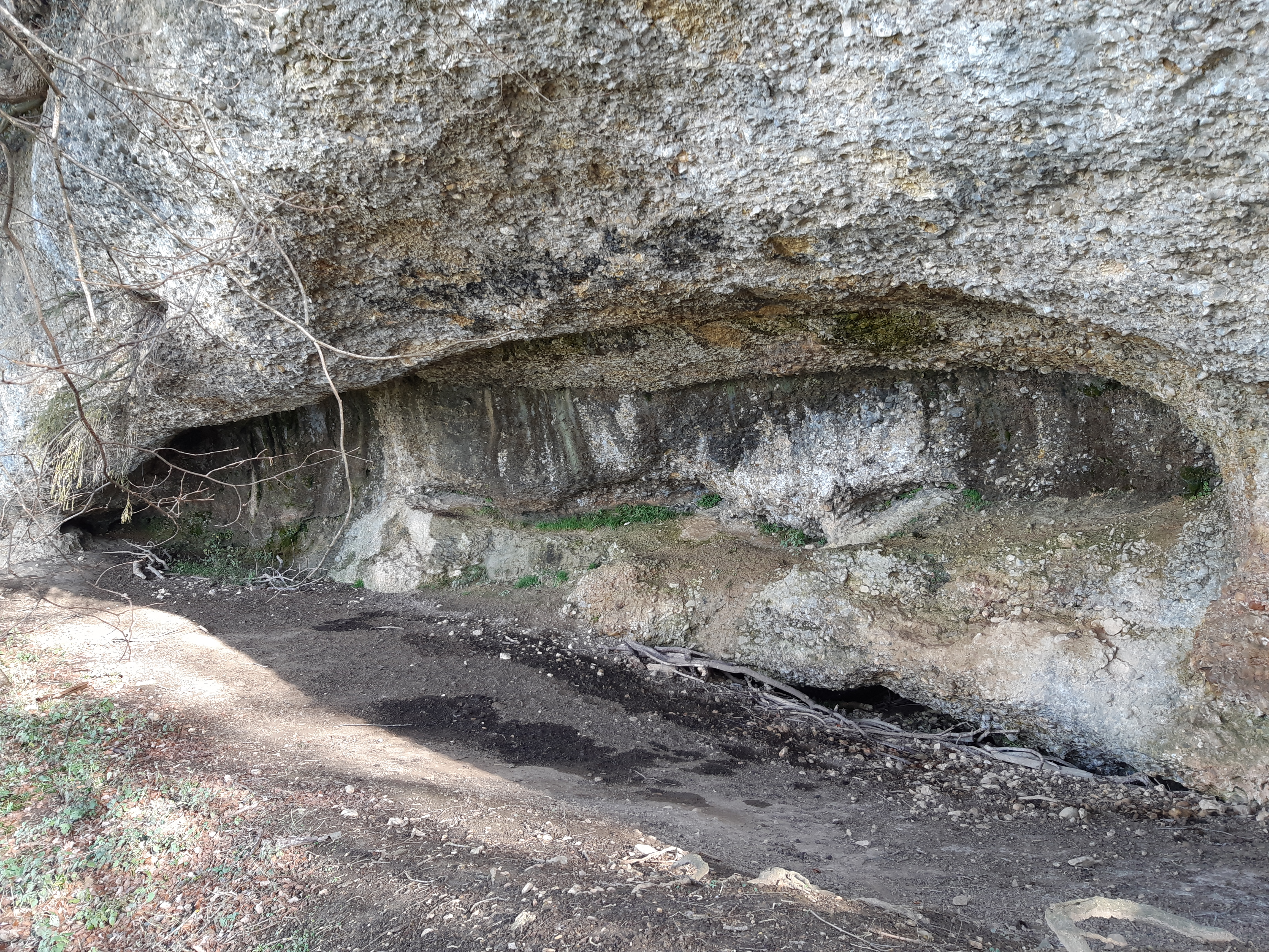 The "Wellensteinhoehle" is part of the so-called "Langer Stein" (meaning: "Long Stone"), in which there are several holes and Rock shelter (Abri), which were created by washing out marl from the Nagelfluh rock. A prehistoric settlement is suspected here.